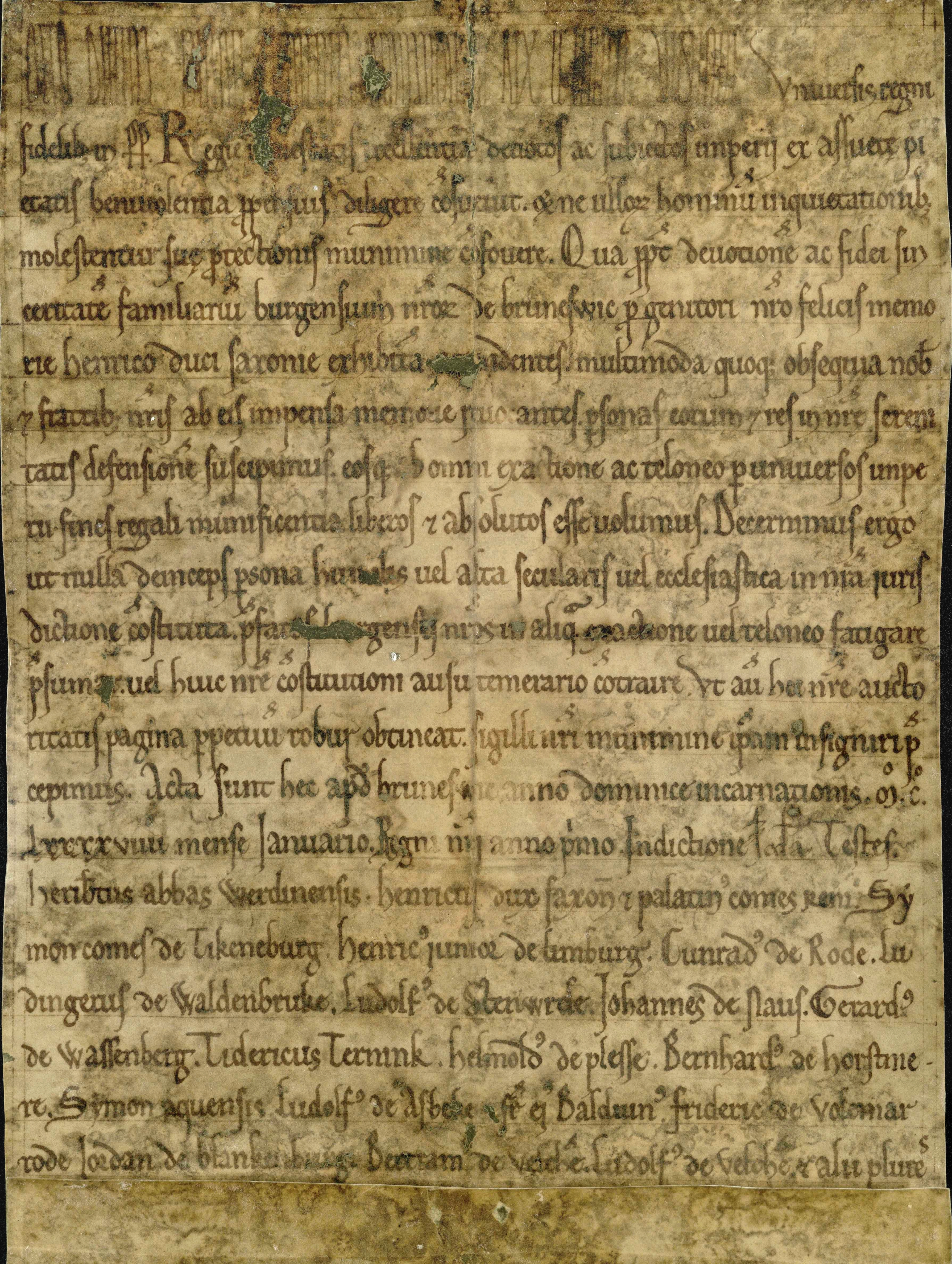 Braunschweig, Germany: Customs privilege of Holy Roman Emperor Otto IV bestowed upon the citizens of Braunschweig in 1199.